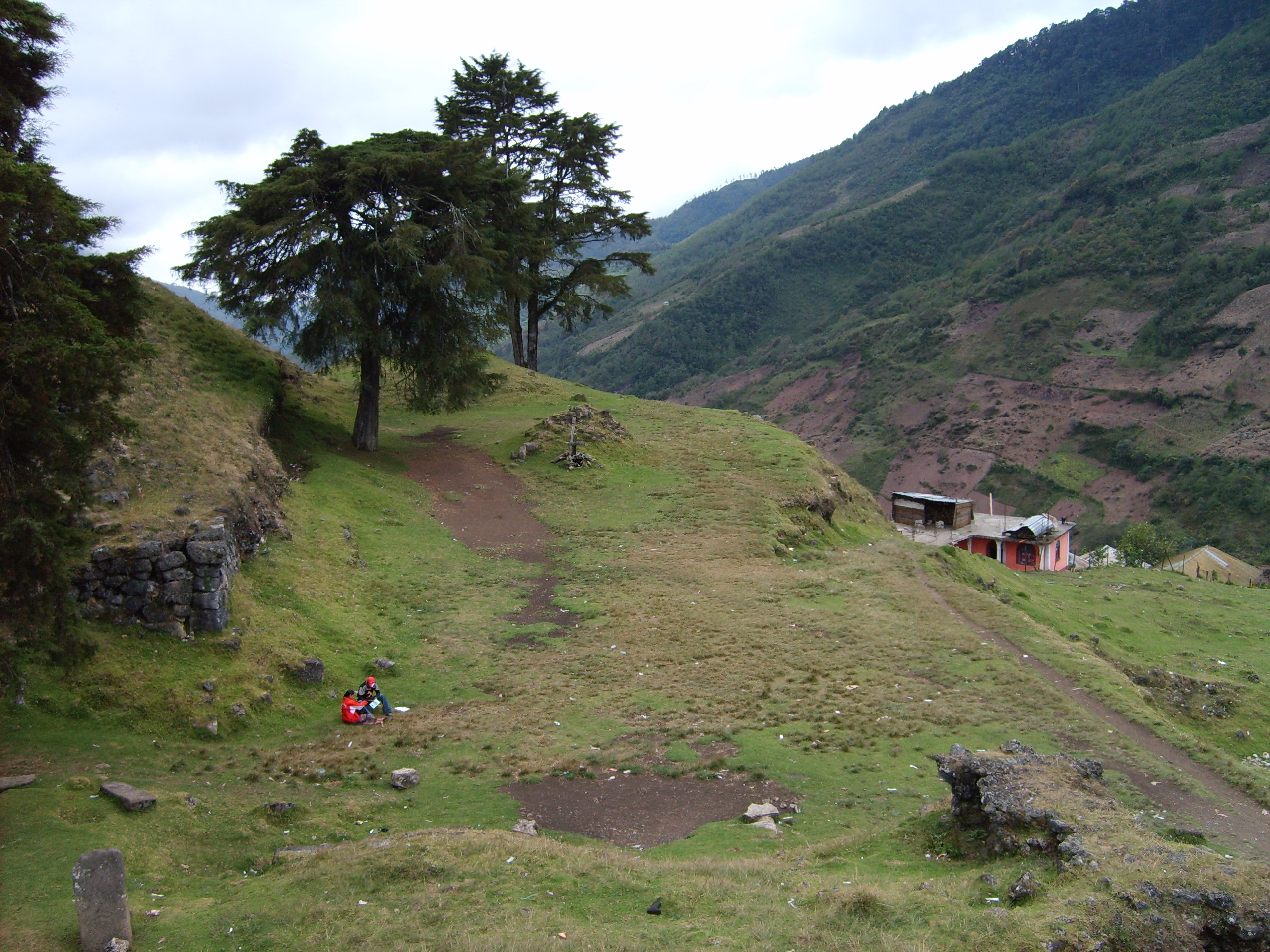 Unexcavated pre-Columbian ruins of Wajxaklajun at San Mateo Ixtatán in Huehuetenango department of Guatemala. Built by the ancestors of the modern Chuj Maya. Plaza II with Mound D.